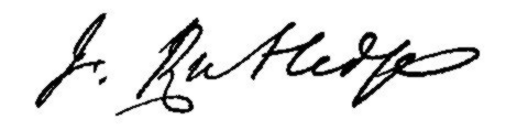 John Rutledge's signature